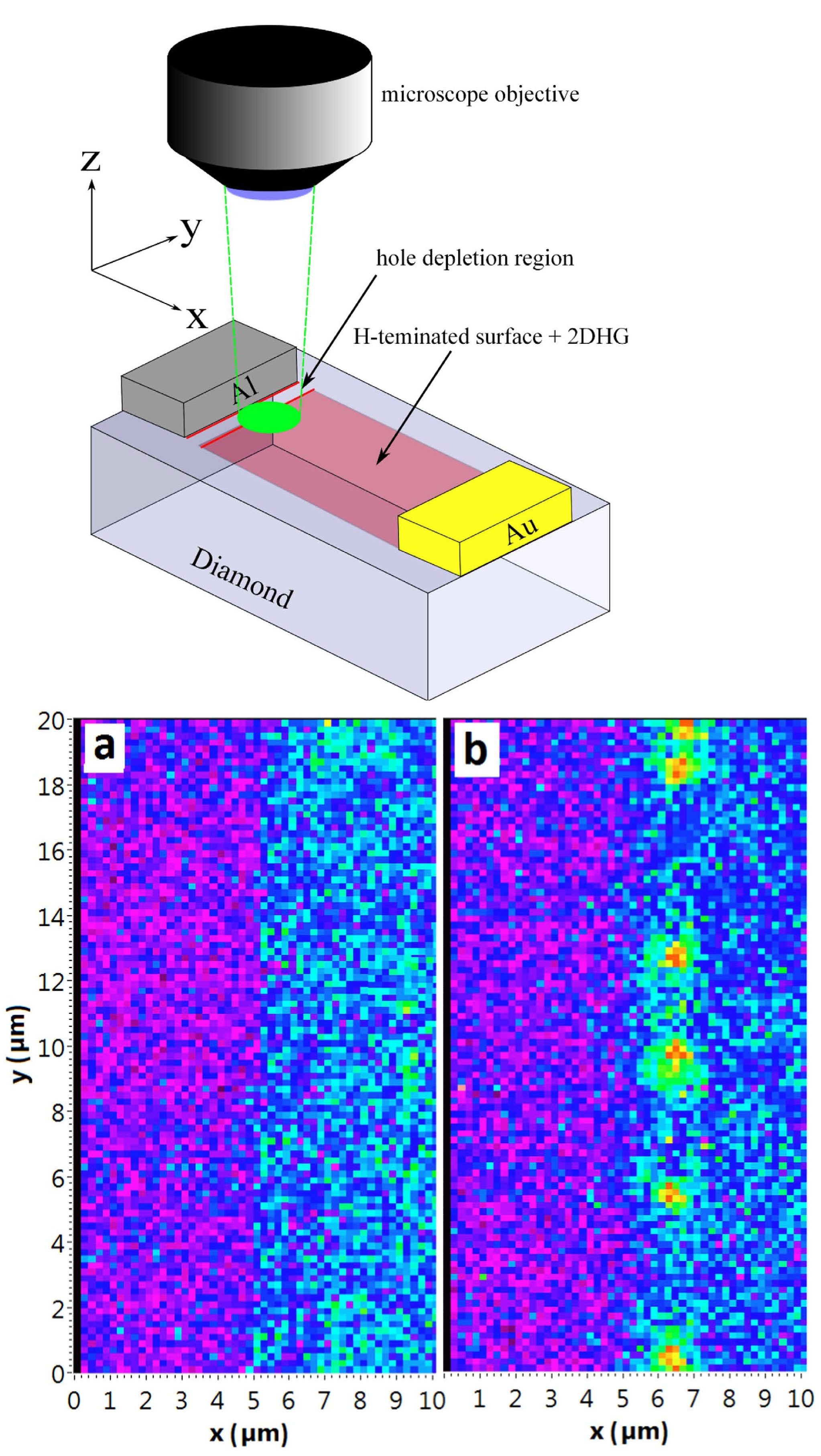 Top: Schematic figure of an in-plane Al Schottky diode on H-terminated diamond surface. A confocal μPL measurement was performed at the edge of the Al contact (green spot) to investigate the bias-voltage dependent variation of NV emission in the depletion region. Bottom: A PL-intensity mapping performed on the diamond surface at the edge of the Al-Schottky-contact (rectangle area on the left with lower PL intensity). Compared to the zero-potential condition (a) there are bright spots visible at the edge of the Al-contact (b) upon applying a reverse bias potential of +20 V indicating NV− photoluminescence in the hole depletion region of the Schottky junction.